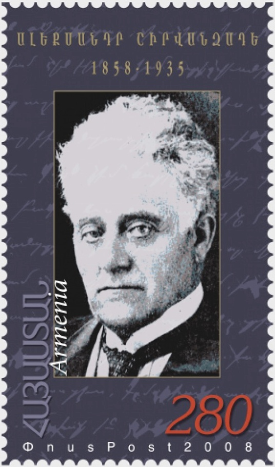 150th Anniversary of Birth of Alexander Shirvanzade